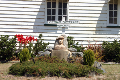 Vietnam Veterrans Memorial in Munduberra